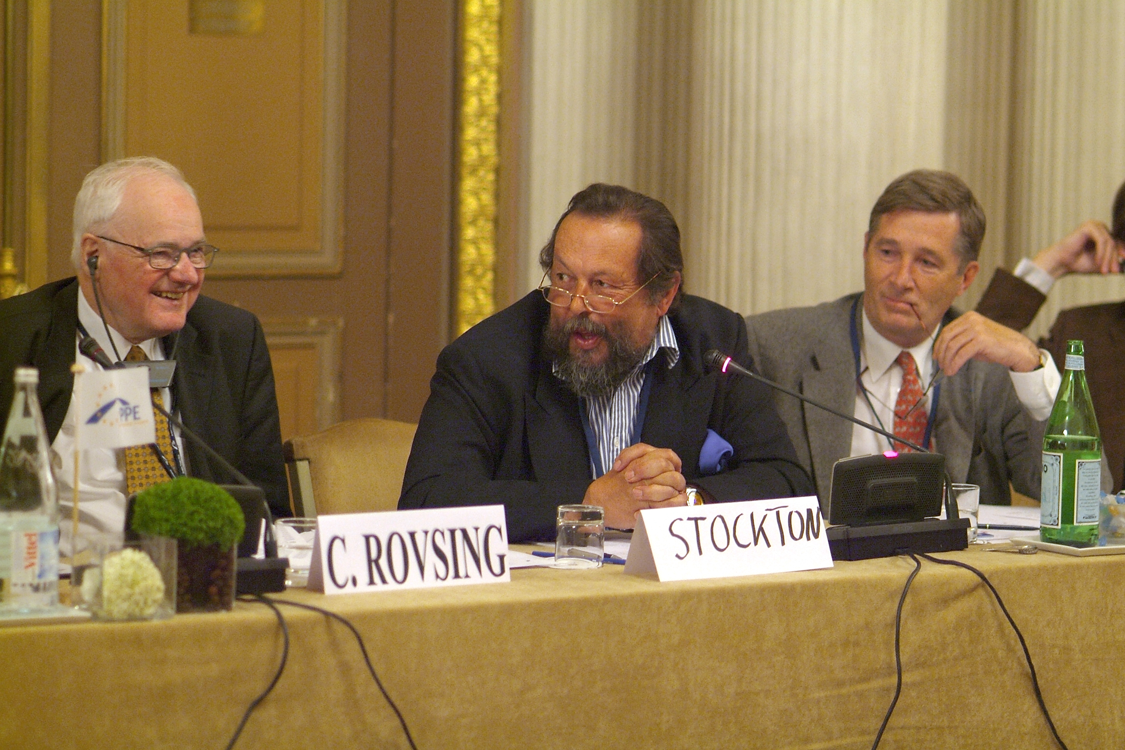 EPP debates on EU Constitution - Paris 8-9 March 2005